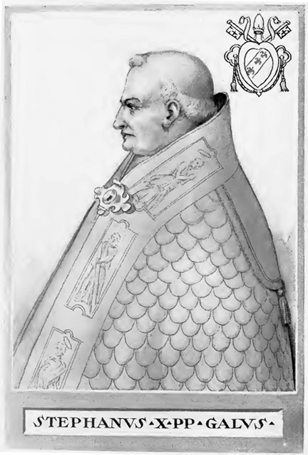 This illustration is from The Lives and Times of the Popes by Chevalier Artaud de Montor, New York: The Catholic Publication Society of America, 1911. It was originally published in 1842. Before Pope-elect Stephen was removed from most lists of popes, this pope was referred to as Stephen X.